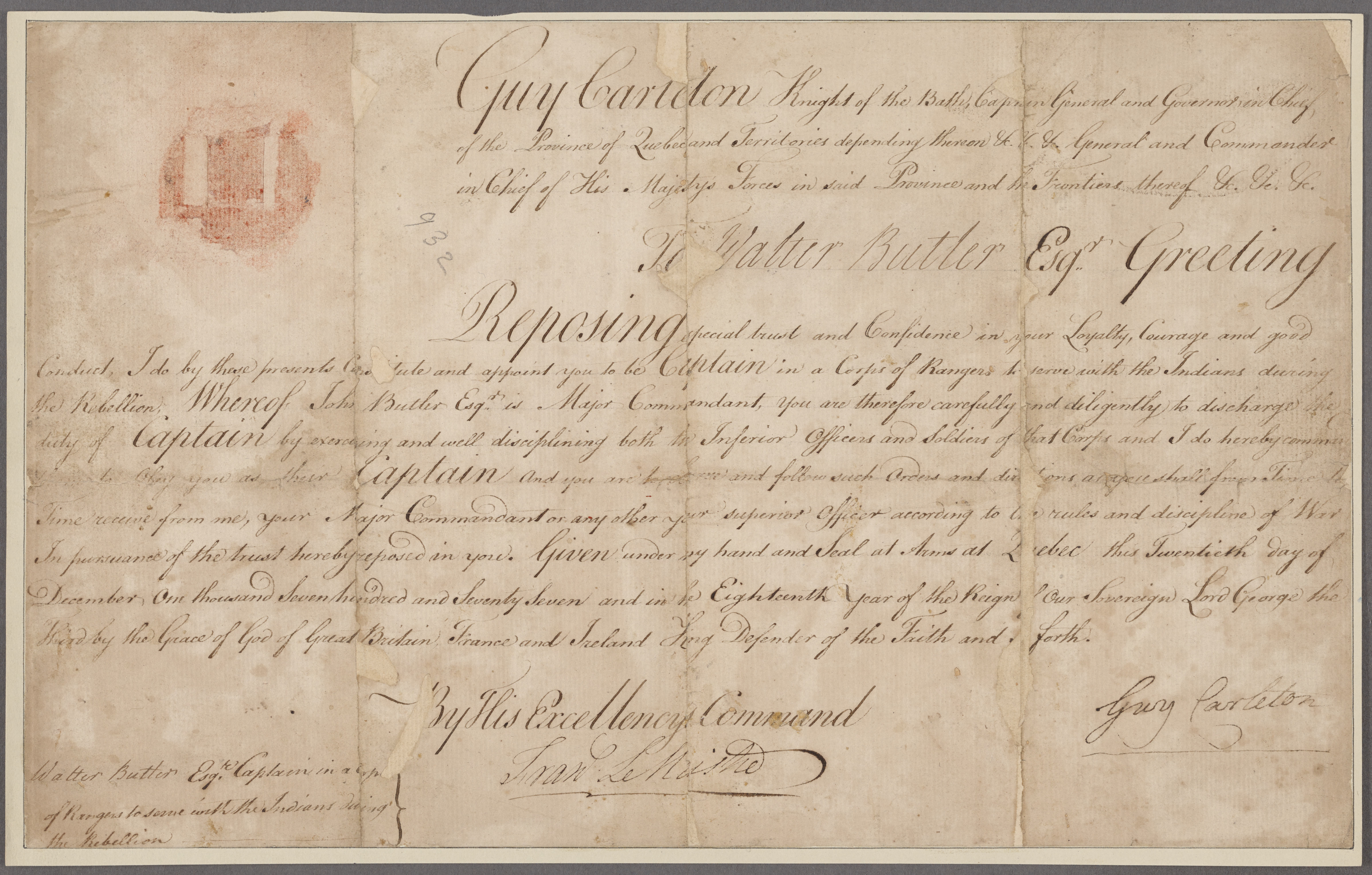 Letter of appointment of Walter Butler (1752-1781) as captain of a corps of rangers, by British governor Guy Carleton. Digitization was made possible by a lead gift from The Polonsky Foundation. Reference of the Myers collection